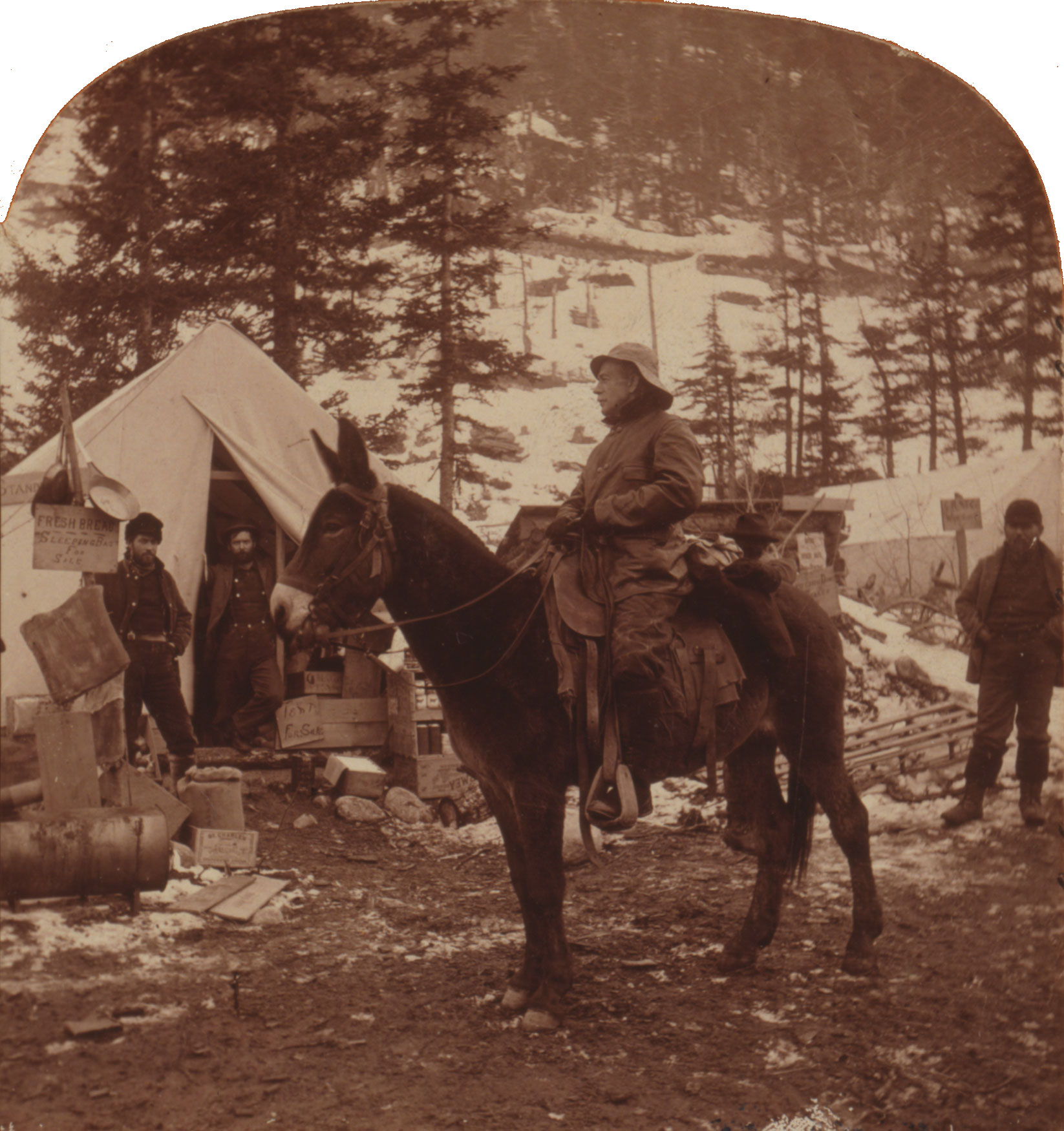 U.S. Post Office inspector John Philip Clum on back of mule in front of tent, and three men in background. Cropped from the original stereographic view.